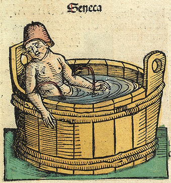 This is a part of a scan of an historical document: Title: Schedelsche Weltchronik or Nuremberg Chronicle